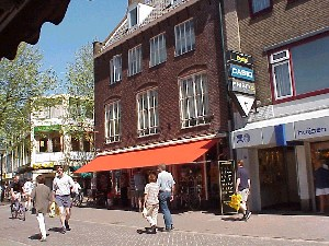 Shops on the corner of Raadhuisplein (Town Square) and Markt (Market Street) in the Town centre.